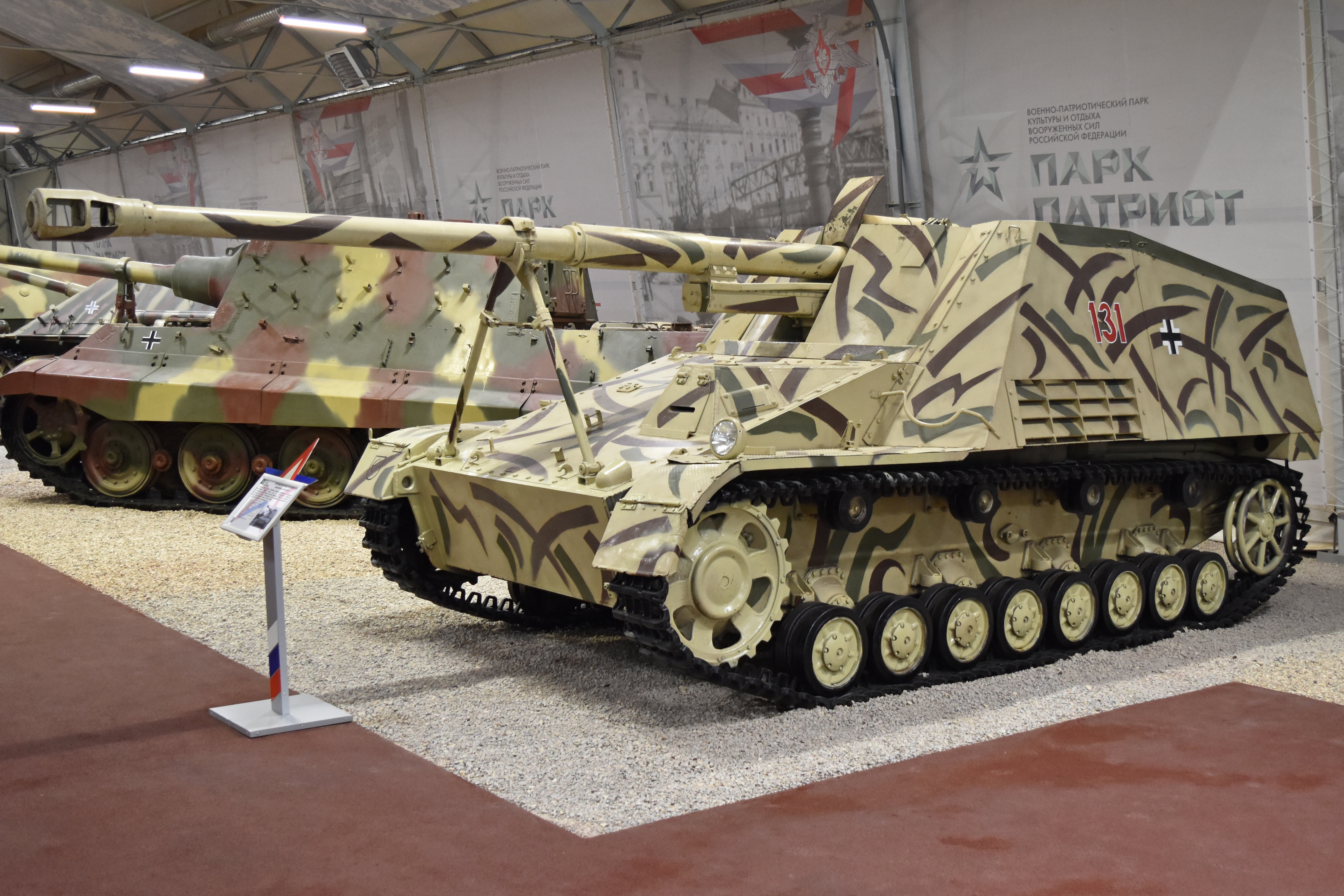 German WW2 era Tank Destroyer Official designation:- Sd.Kfz 164 Geschützwagen III/IV Designer:- Alkett Manufacturer:- Deutsche Eisenwerke Built:- 1943 Total Production:- 473 Main Armament:- 88mm Pak 43/1 Initially called the ‘Hornisse’ (Hornet), Hitler renamed it as the ‘Nashorn’ (Rhinoceros) in 1944. It first saw action at the Battle of Kursk, where the open Soviet countryside suited its long-range ability and it was able to take on Soviet Heavy tanks like the KV-1. Nashorns later also served well in Italy and Normandy. This is one of only three Nashorns to survive and has recently been repainted into an accurate colour scheme and markings. It is on display in Hall 11 of the Patriot Museum Complex. Park Patriot, Kubinka, Moscow Oblast, Russia. 25th August 2017